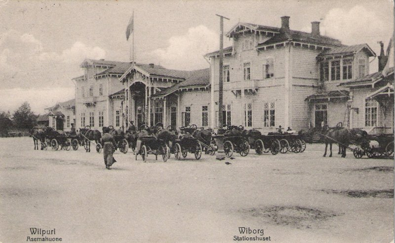 The first railway station of Vyborg was built in 1870.